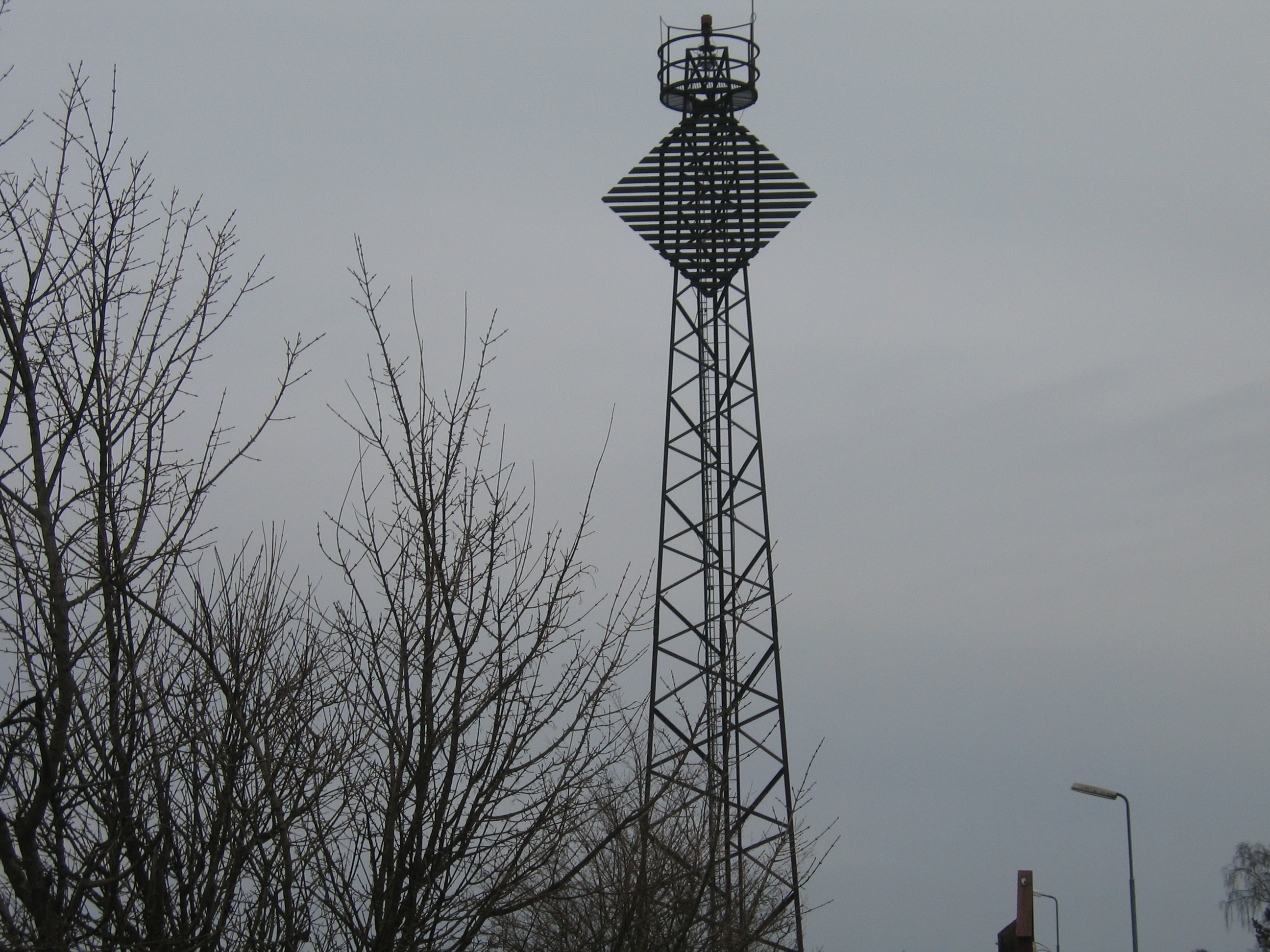 Tower constructed with box works / trusses.